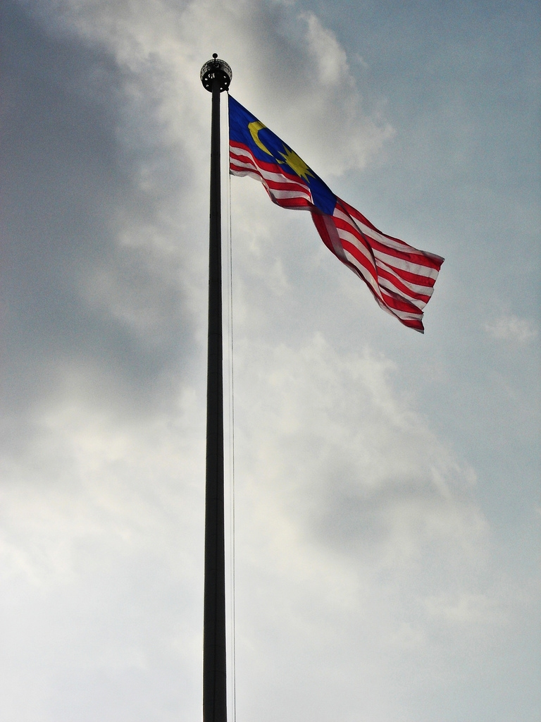 The flag of Malaysia, also known as the Jalur Gemilang (Stripes of Glory)! :D I am proud to be Malaysian! :D :D :D